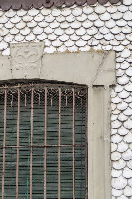 Casa de las conchas